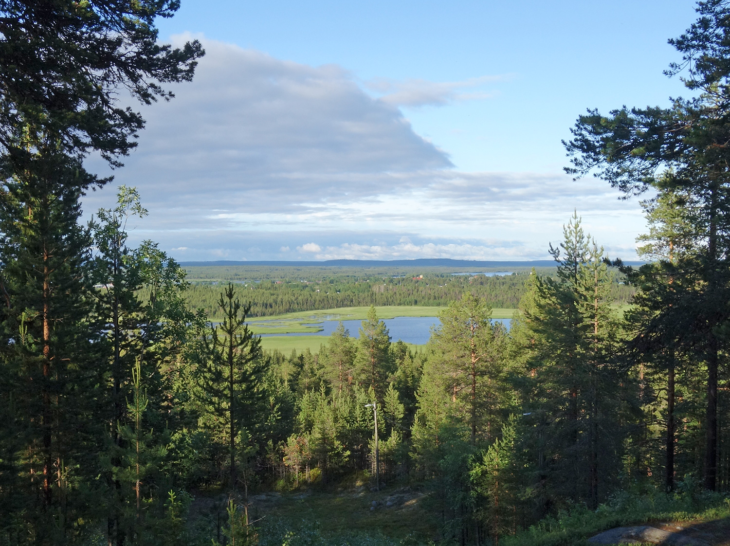 View of lake Posiojärvi from Mount Posiorova west of Vittangi, Kiruna Municipality, northern Sweden.